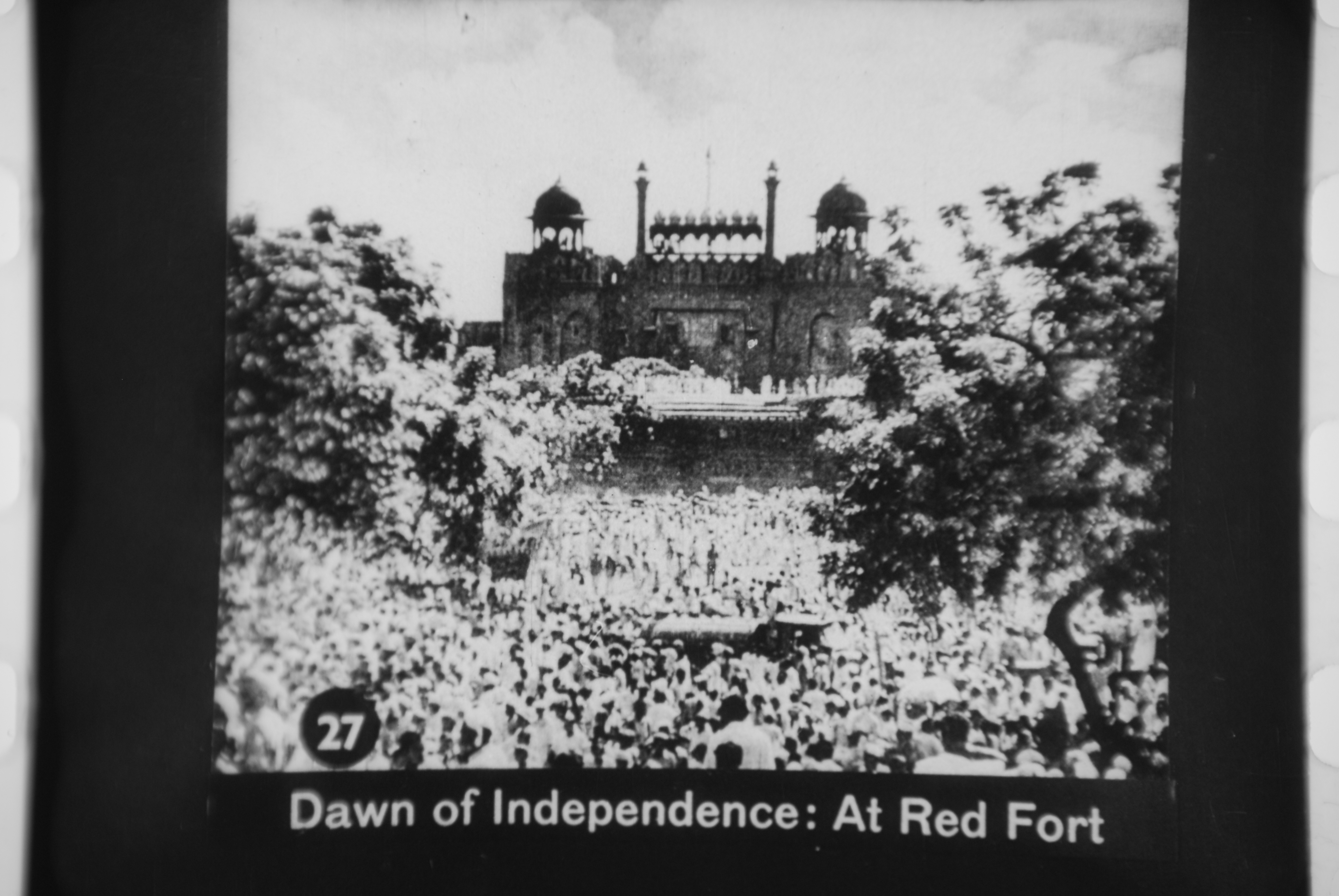 Indian Independence Day at the Red Fort